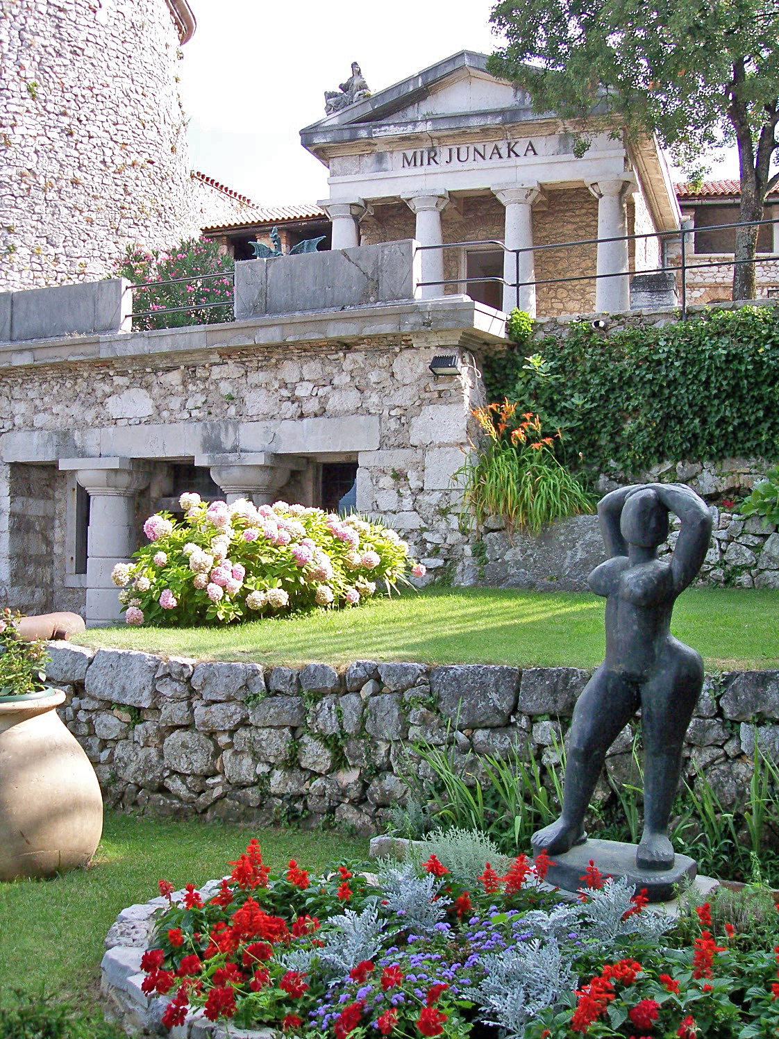 Hill fort in Trsat district in city Rijeka (Croatia)